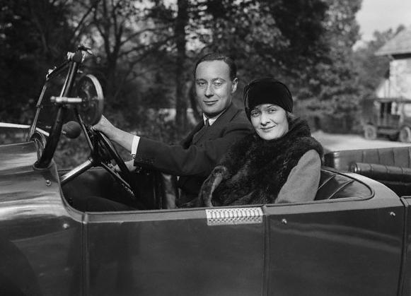 Baron Joseph Van der Elst and Miss Allison Campbell-Roebling after their engagement.